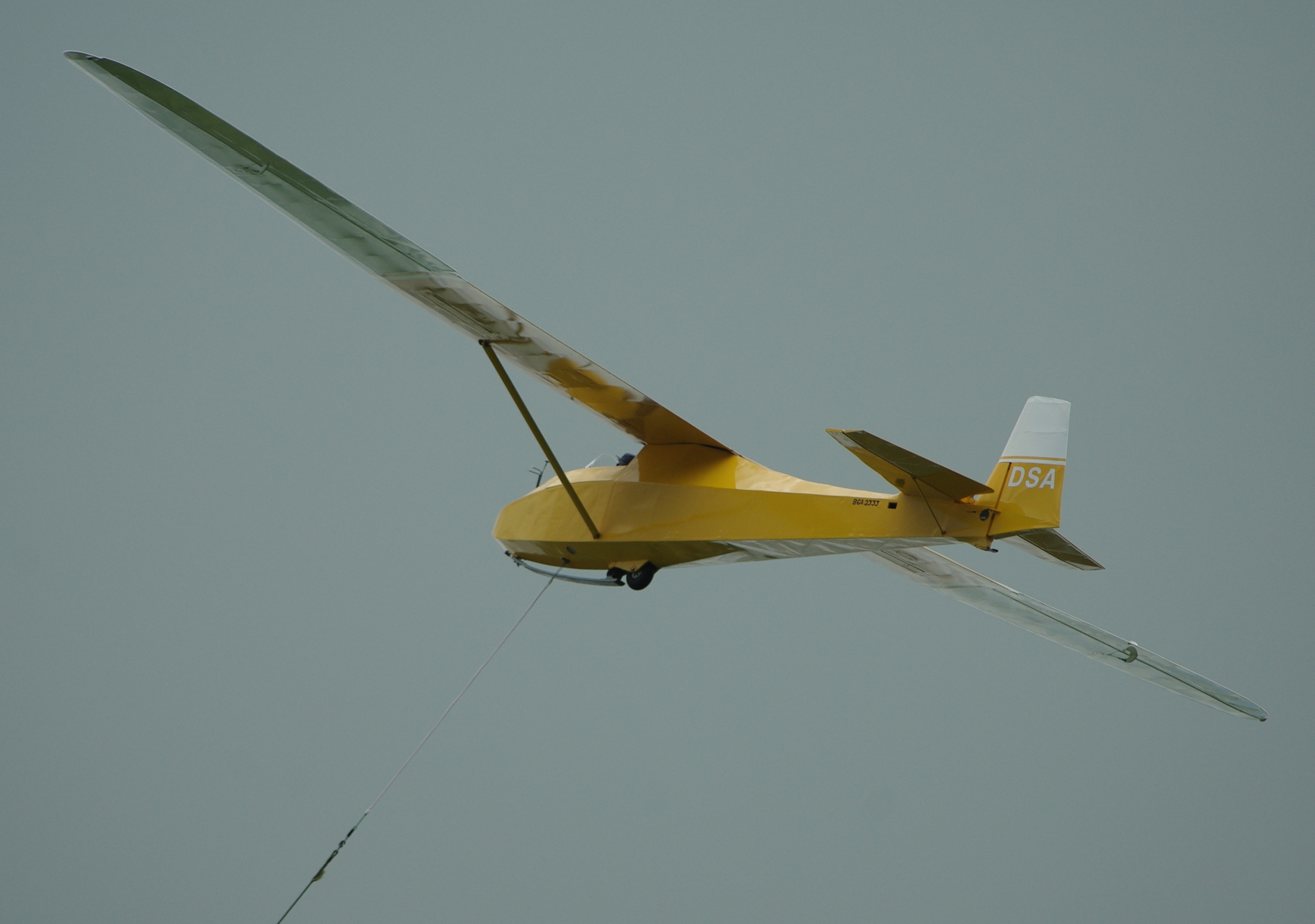 Slingsby T.30B Prefect launching at Camphill, June 2013